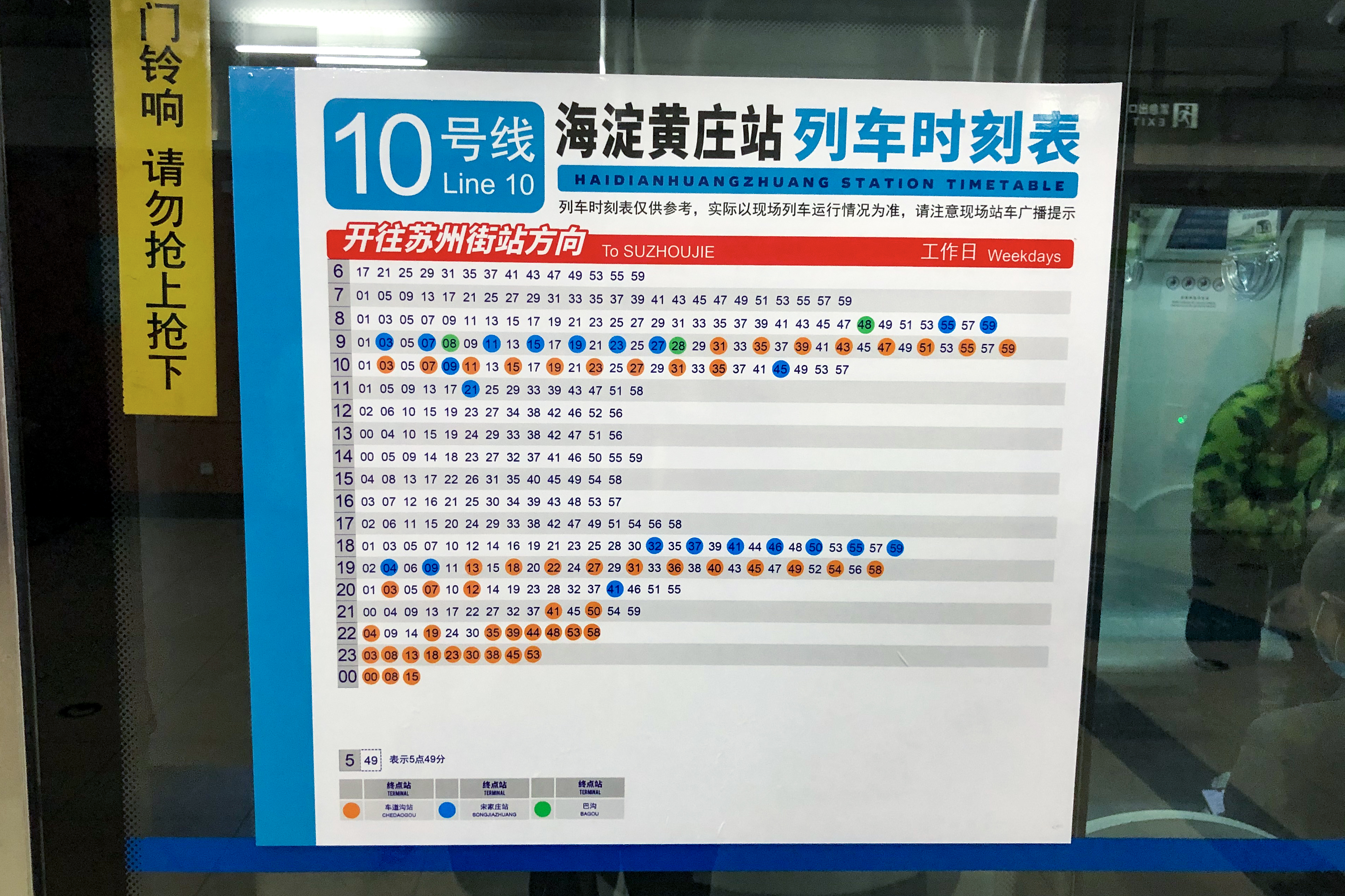 Beijing Subway's ultra mode becomes effective today. This time Songjiazhuang is Songjiazhuang.